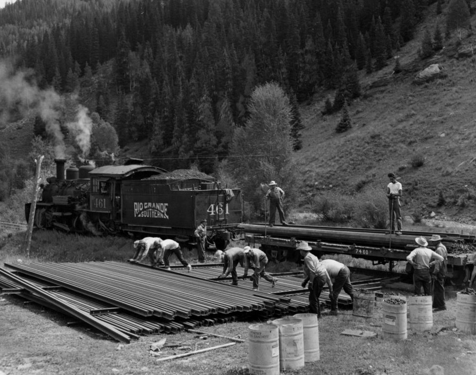 Photo of workers removing the narrow gauge rails of the Rio Grande Southern railroad in 1952 after the abandonment of the Galloping Goose route in 1951.